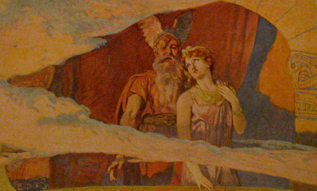 Wodan and Frea stand out and look out of a window in the heavens. At the bottom of the page, women look up at the window with their hair tied as if beards beneath their chin. Inspired by the account of Wodan and Frea naming the Langobards from Origo Gentis Langobardorum.